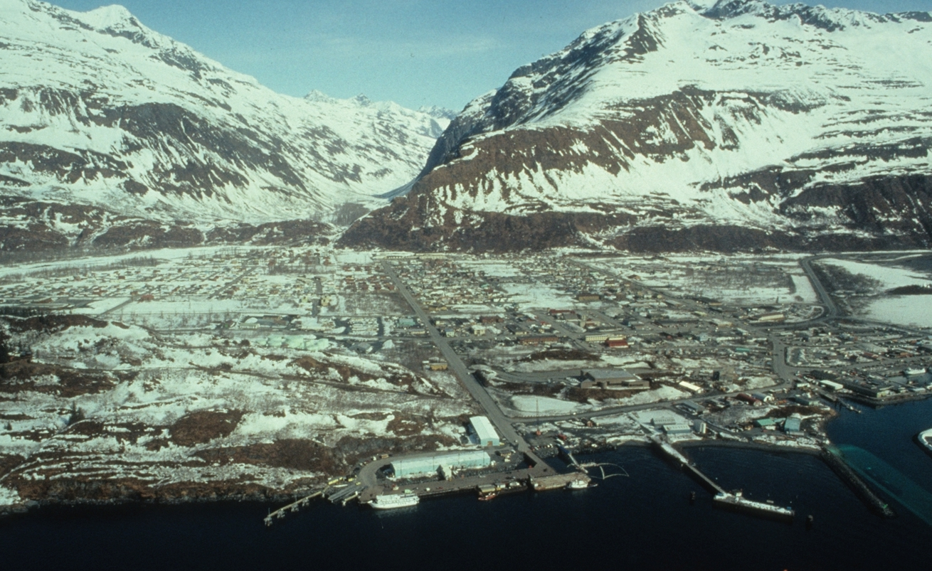 Aerial view of Valdez, Alaska in the early spring of 1989.